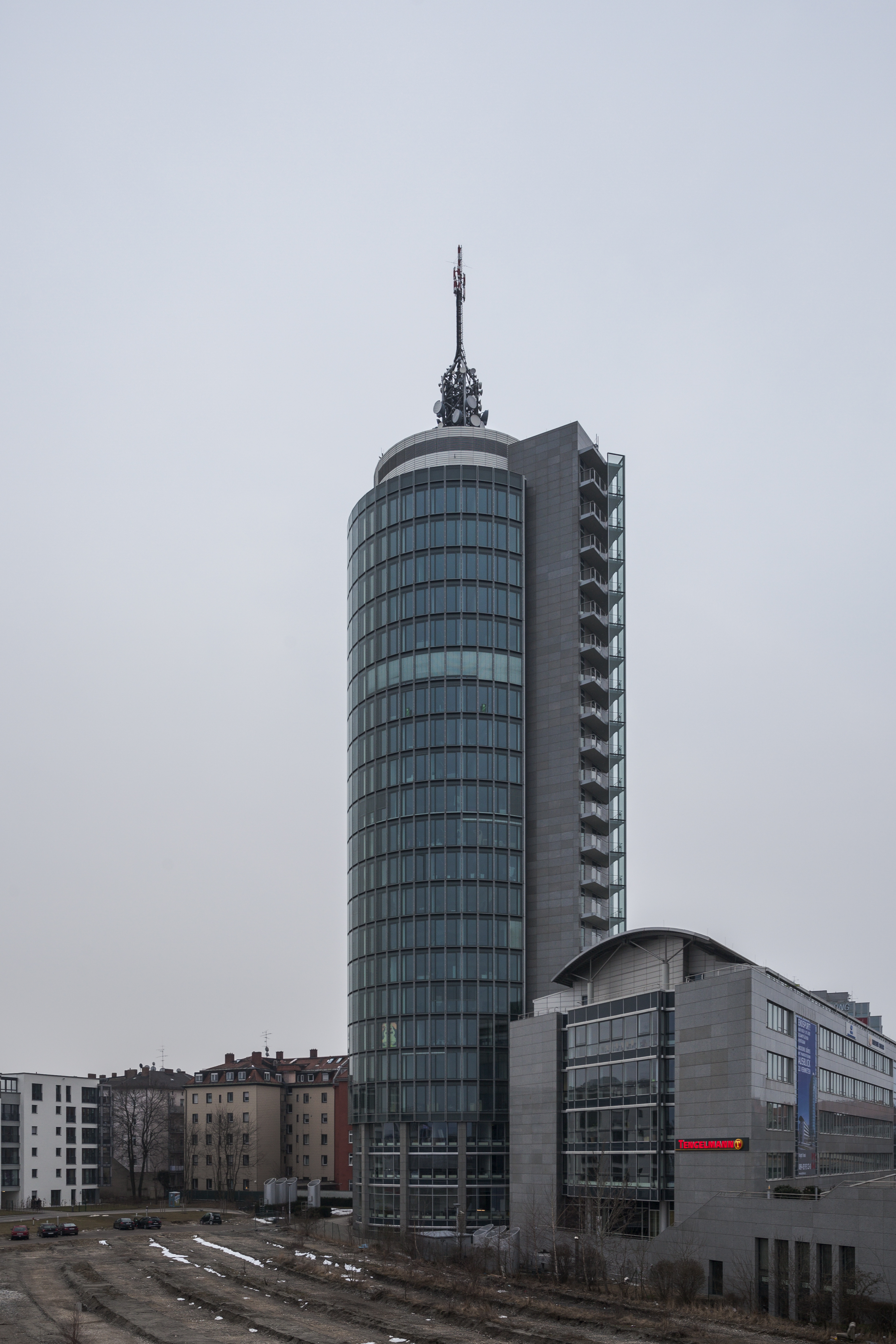 Mercedes-Benz dealership, Munich, Germany